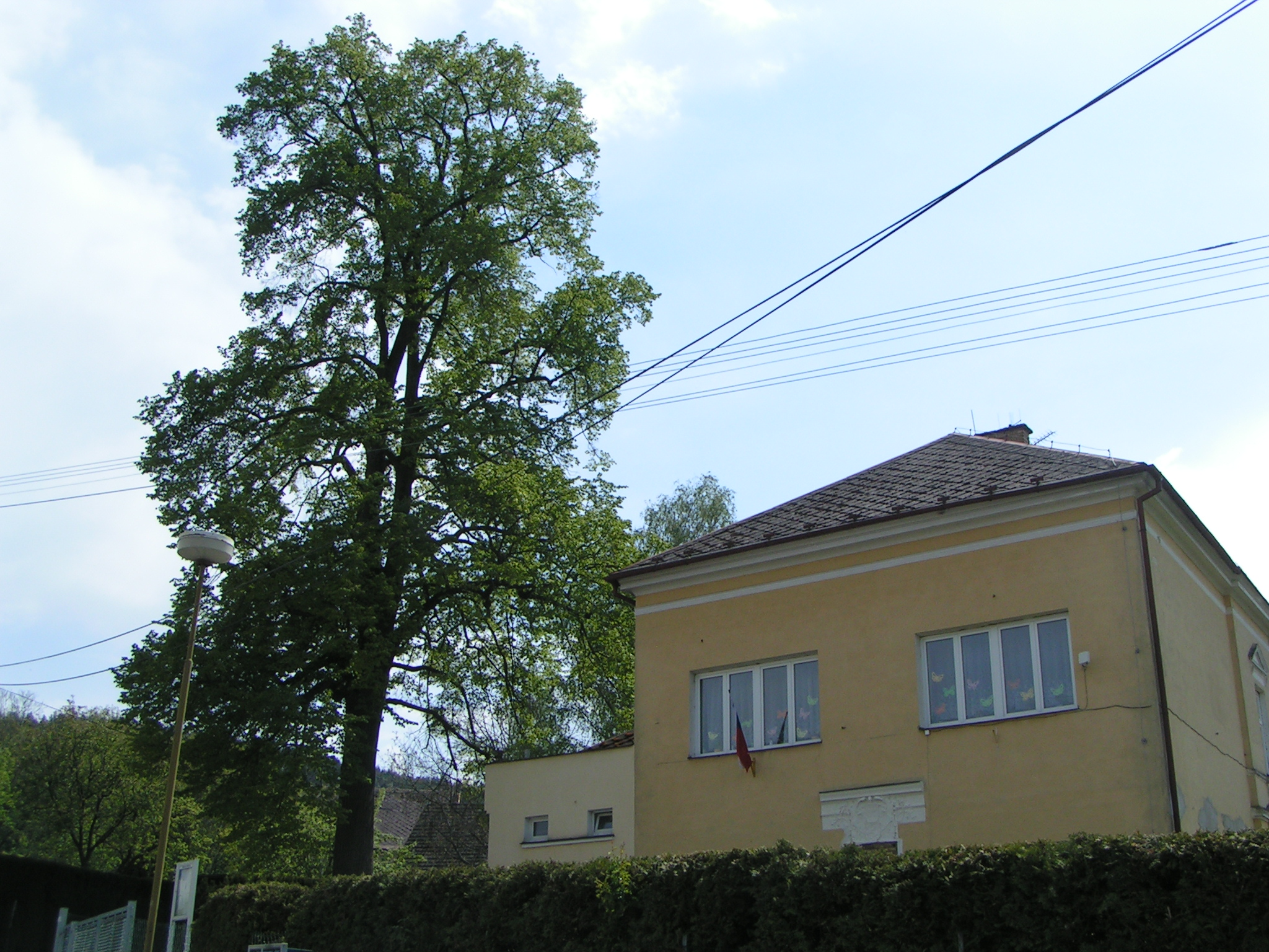 Turnov, Mašov – the famous Tilia cordata, from the north